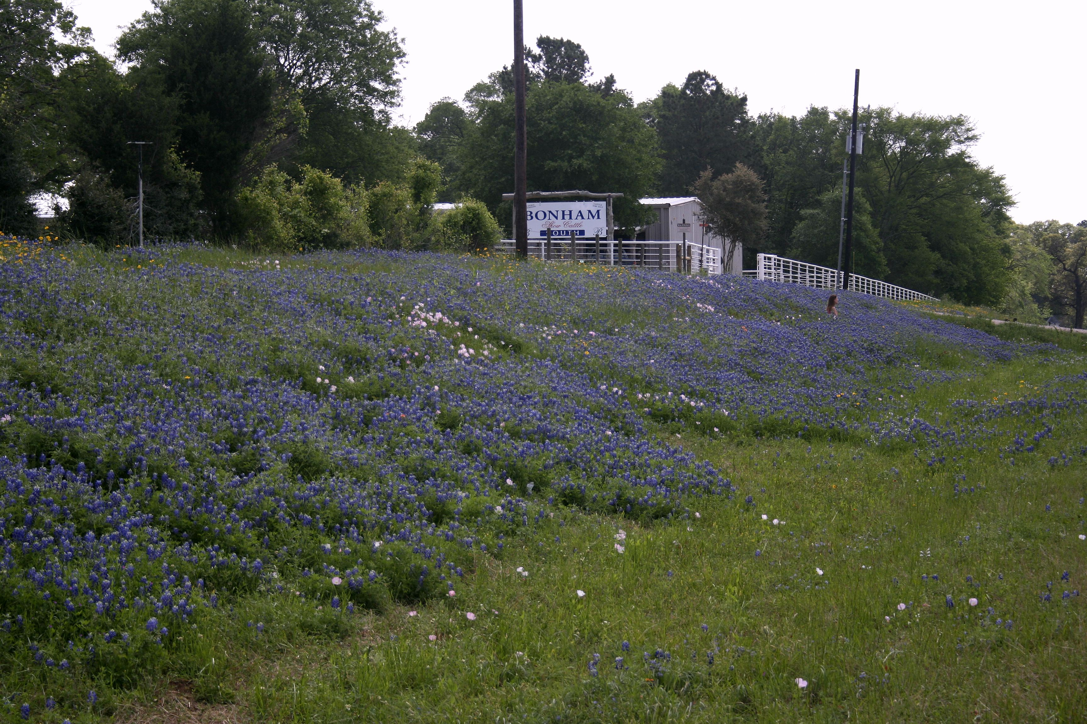 Field of Bluebonnets beside a highway near College Station, Texas.